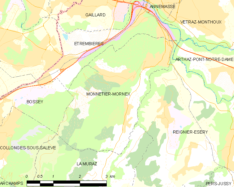 Map of French municipality Monnetier-Mornex